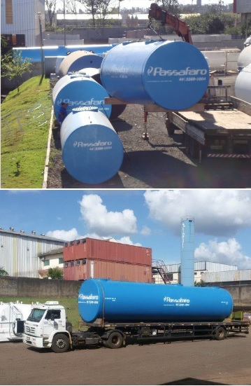 jacketed tank